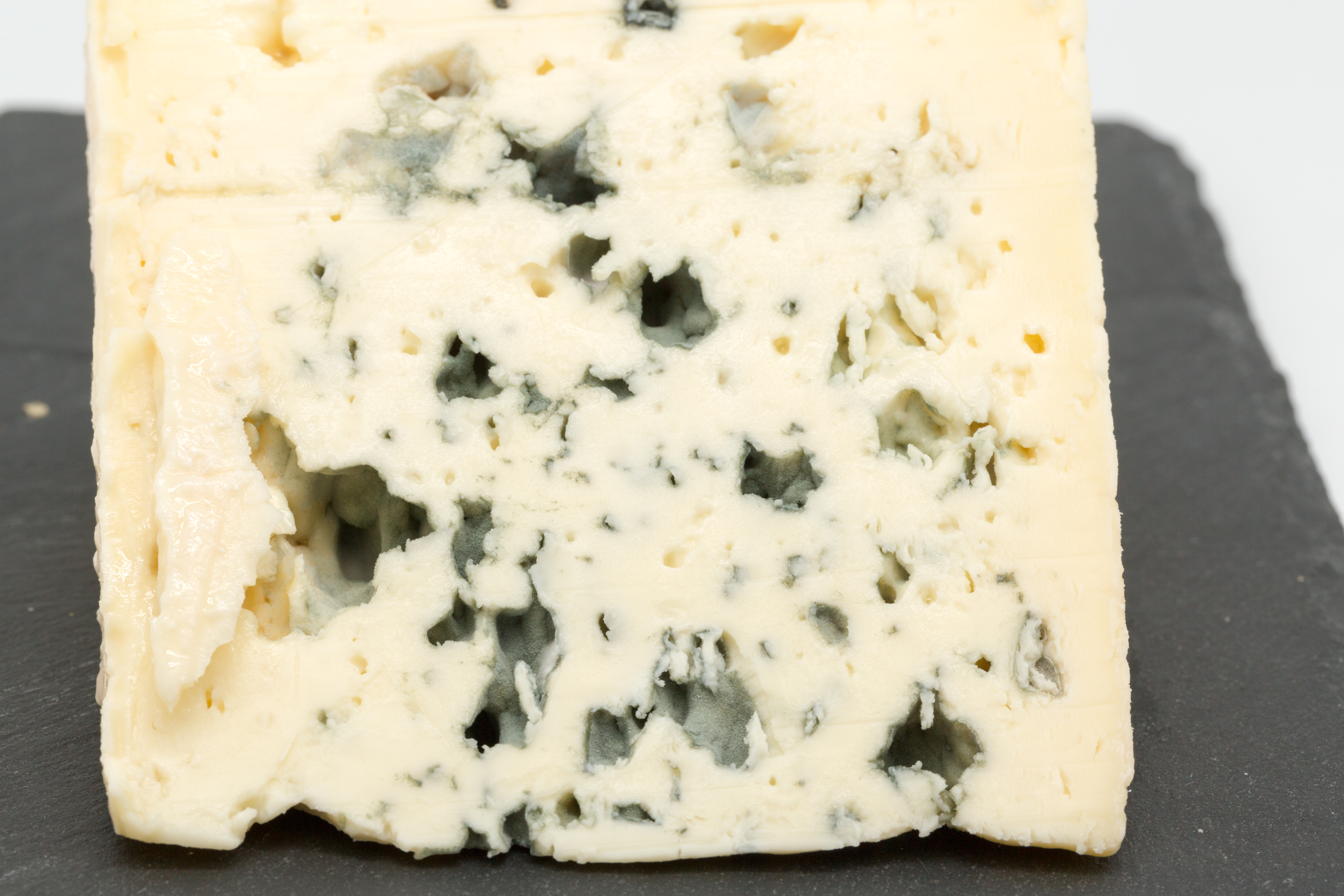 Cheese